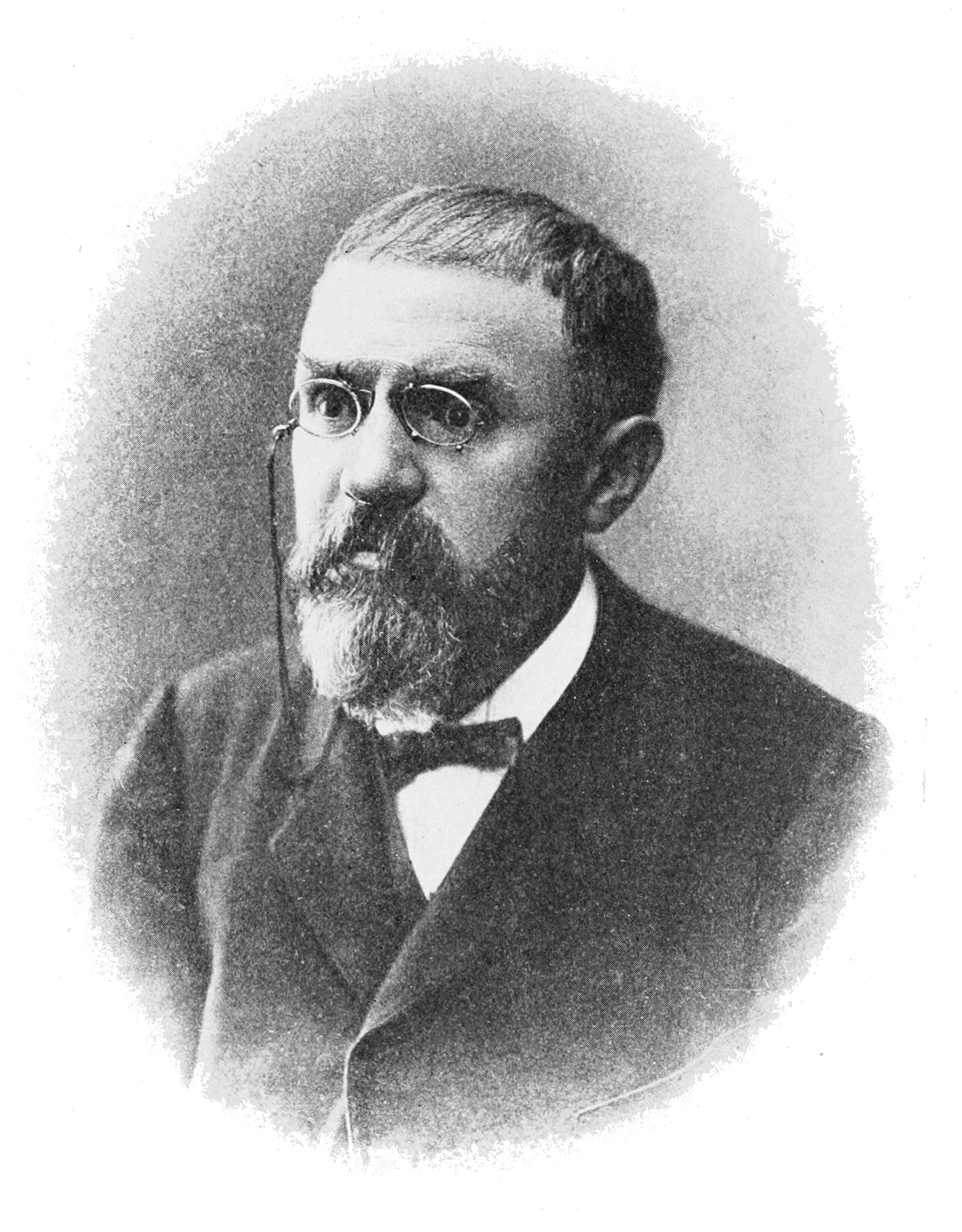 Henri Poincare